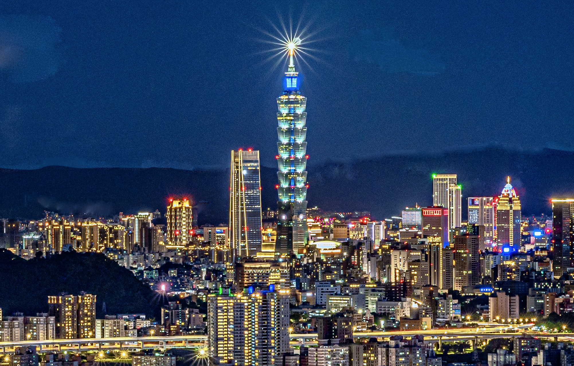 Night skyline of Taipei, Taiwan in 2020